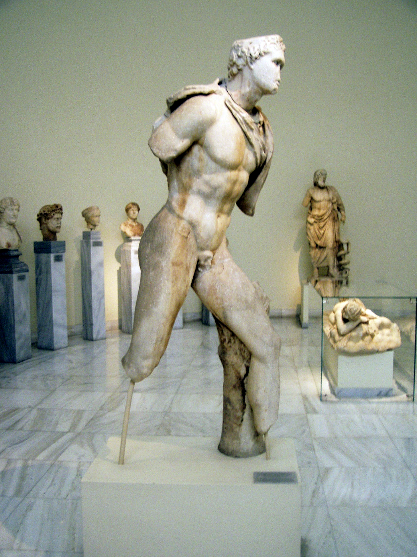 Statue of a youth wearing a chlamys at the NAMA, Nr 246.